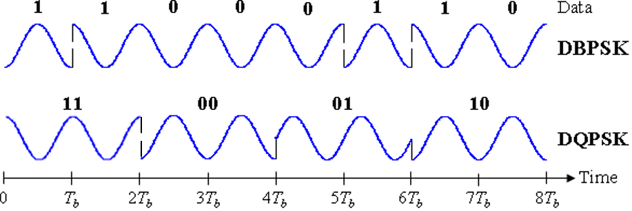 Timing diagram for DBPSK and DQPSK. The binary data stream is above the DBPSK signal. The individual bits of the DBPSK signal are grouped into pairs for the DQPSK signal, which only changes every Ts = 2Tb.